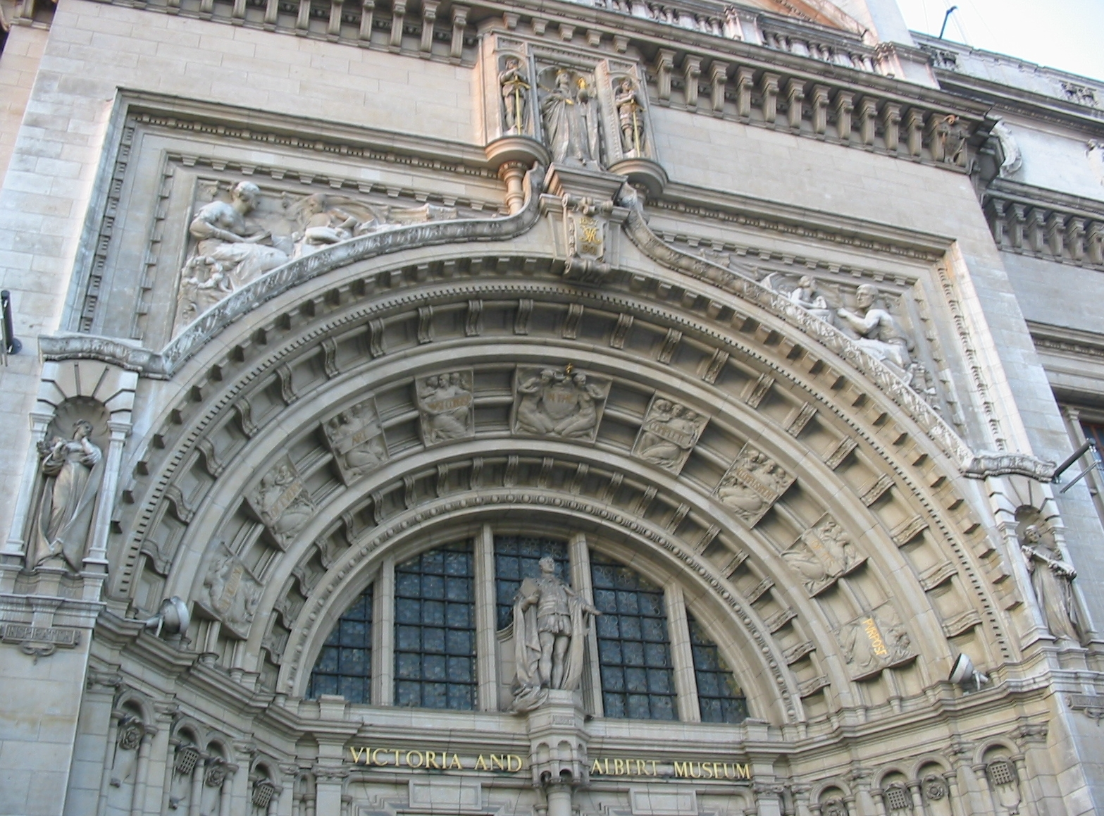 London